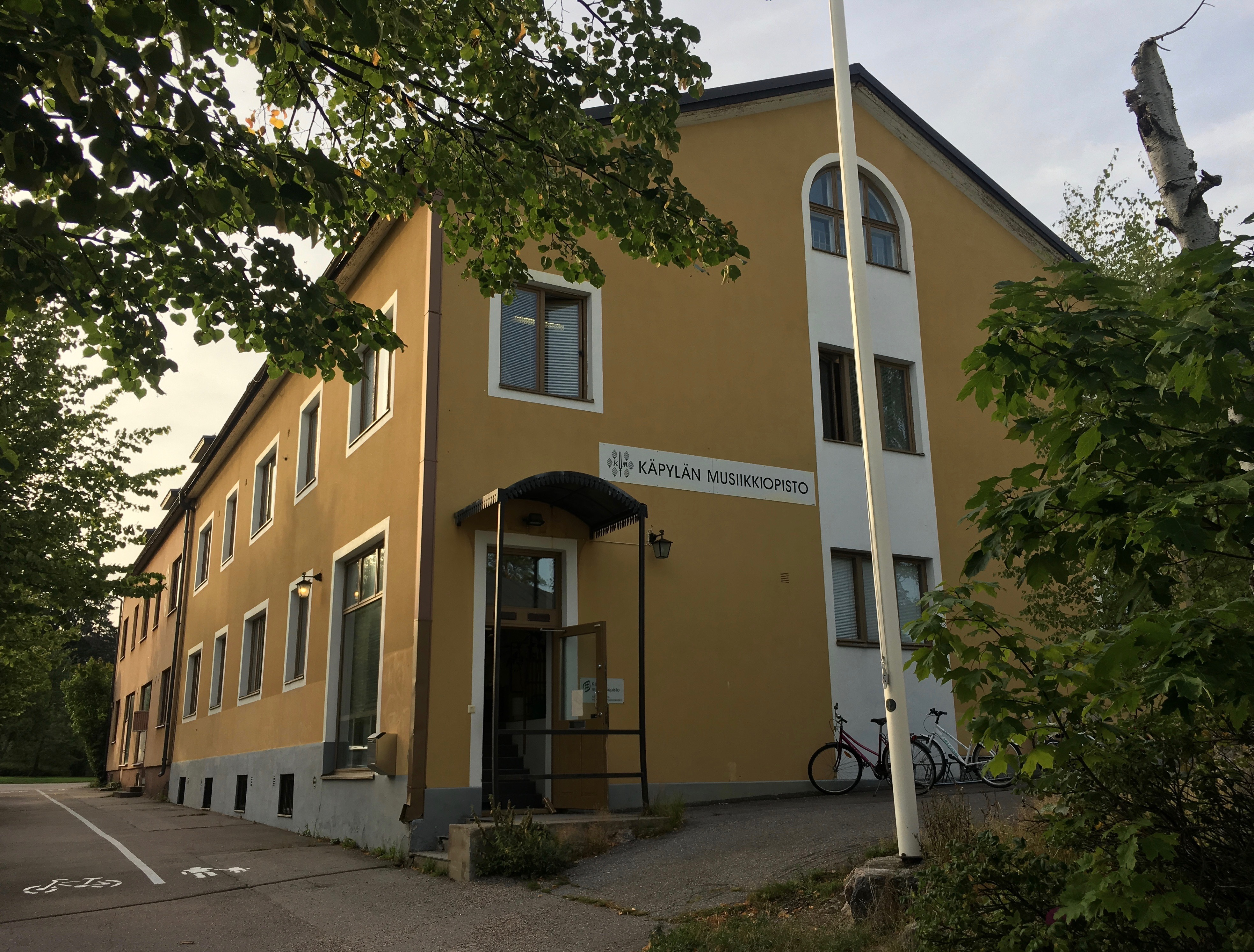 House of the Käpylä Music Institute in Käpylä, Helsinki, Finland.